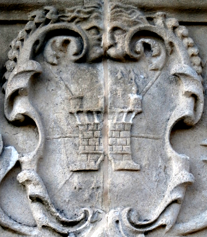 Arms of Sir Nicholas Hooper (1654-1731) of Fullabrook, Braunton, and Raleigh, Pilton in Devon, Member of Parliament for Barnstaple 1695-1715: Gyronny ermine and azure, over all a castle triple-towered argent. Detail from parapet of The Mercantile Exchange (Queen Anne's Walk) Barnstaple.